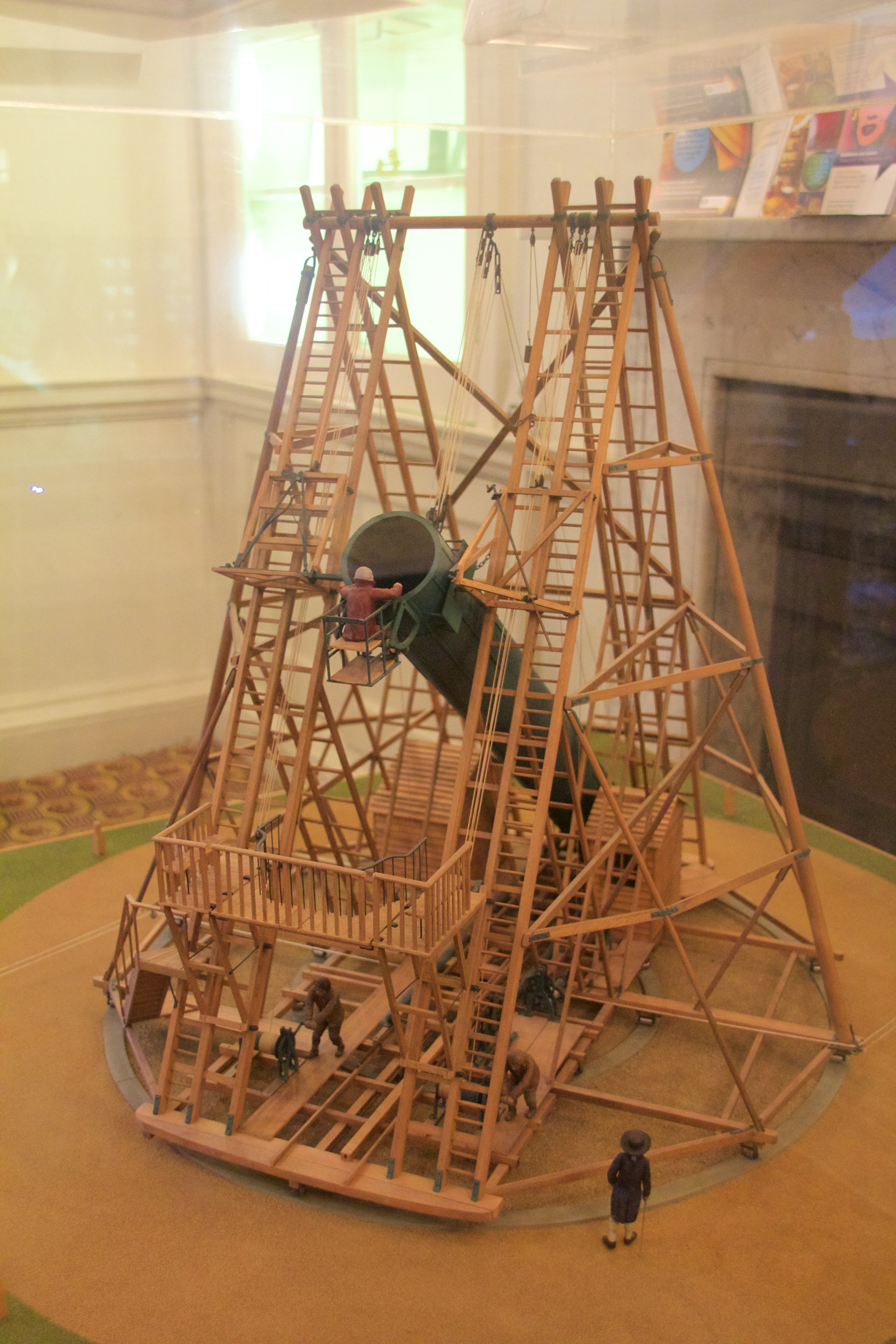 Model of the 40-foot telescope at the William Herschel Museum, Bath.